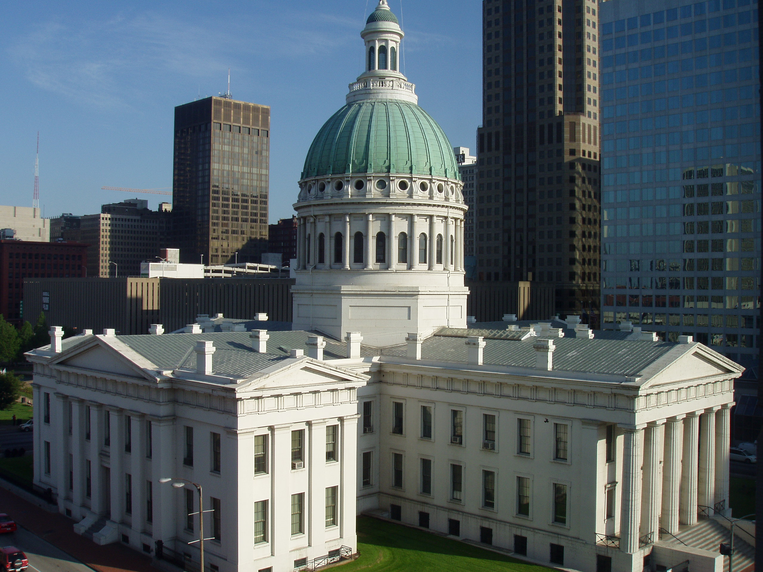 The Old Courthouse, now part of the Jefferson National Expansion Memorial, Saint Louis, Missouri, USA.